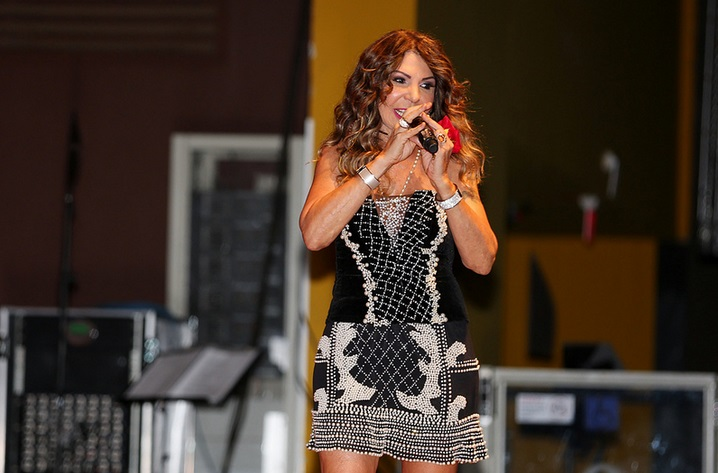 Elba Ramalho, Brazilian singer